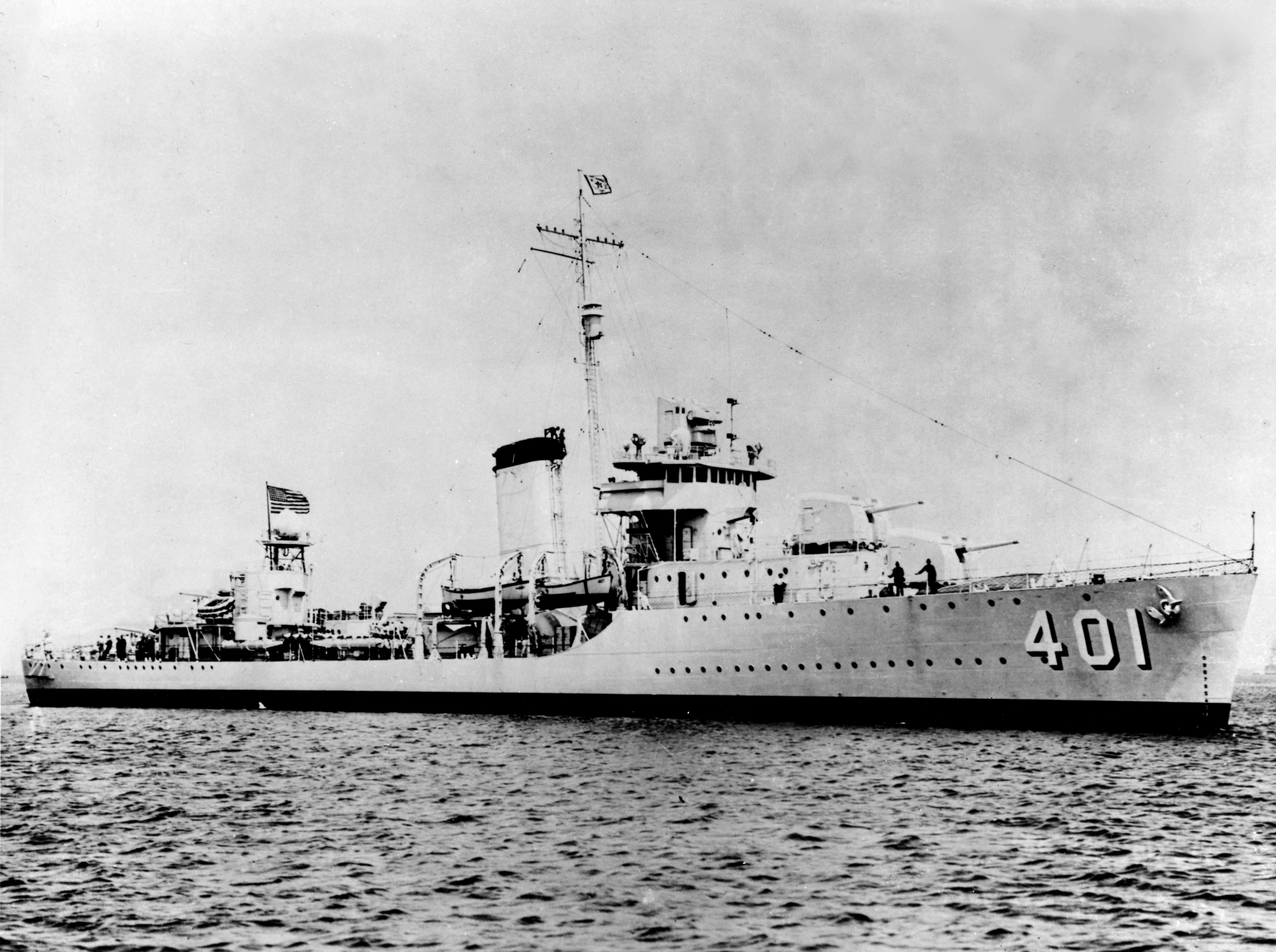 The U.S. Navy destroyer USS Maury (DD-401) as completed, in mid-1938. The original print has been autographed by Admiral Arleigh A. Burke, USN, who served with Maury while he was a Destroyer Division commander in 1943.